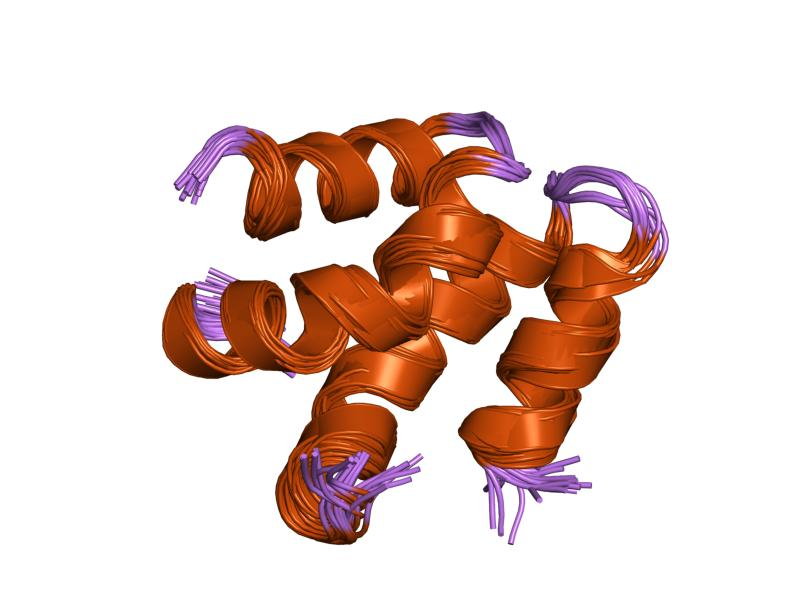 Cartoon representation of the molecular structure of protein registered with 1eci code.